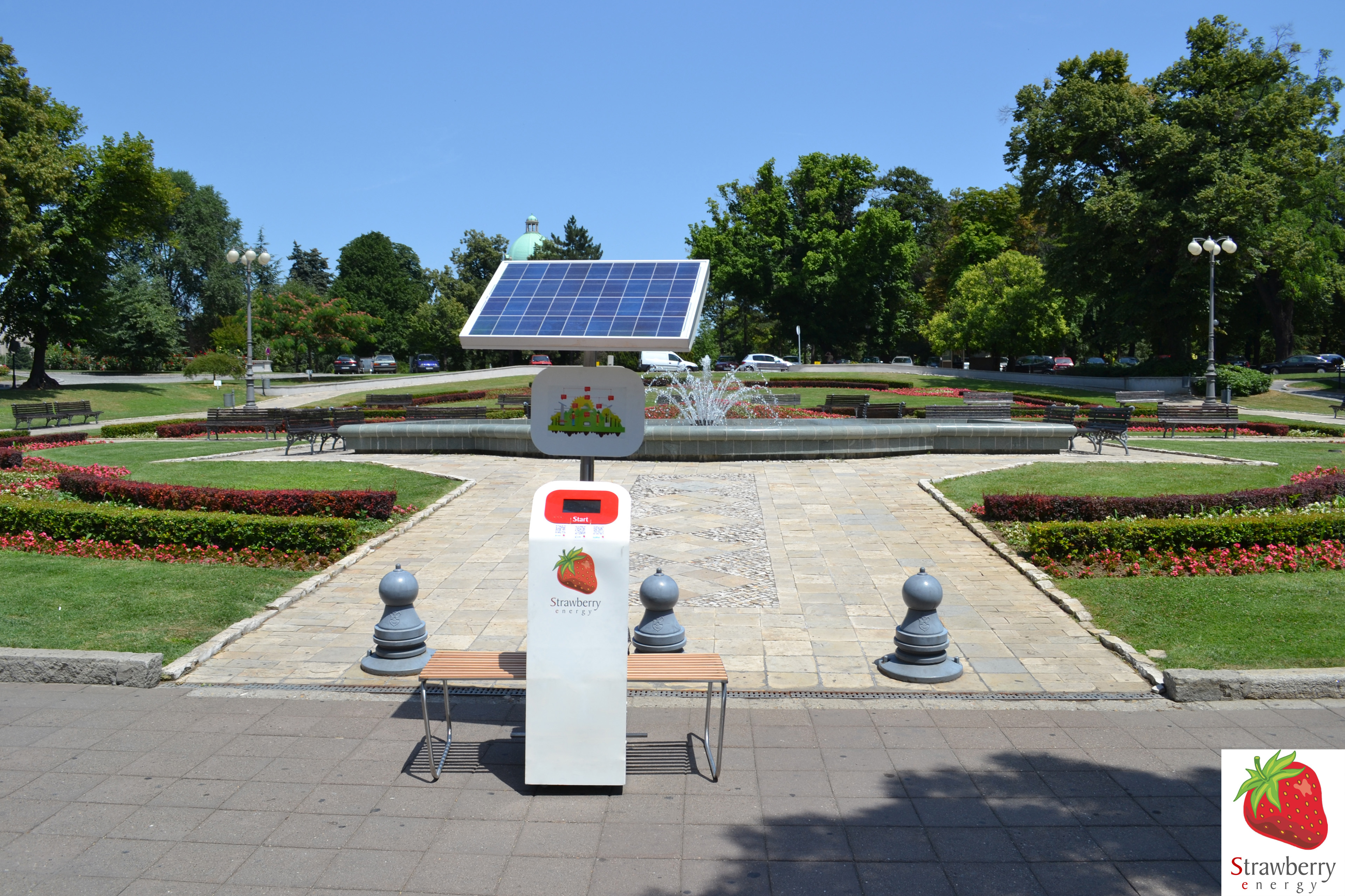 Portable solar charger for mobile devices, Strawberry Mini, developed by Strawberry energy Company